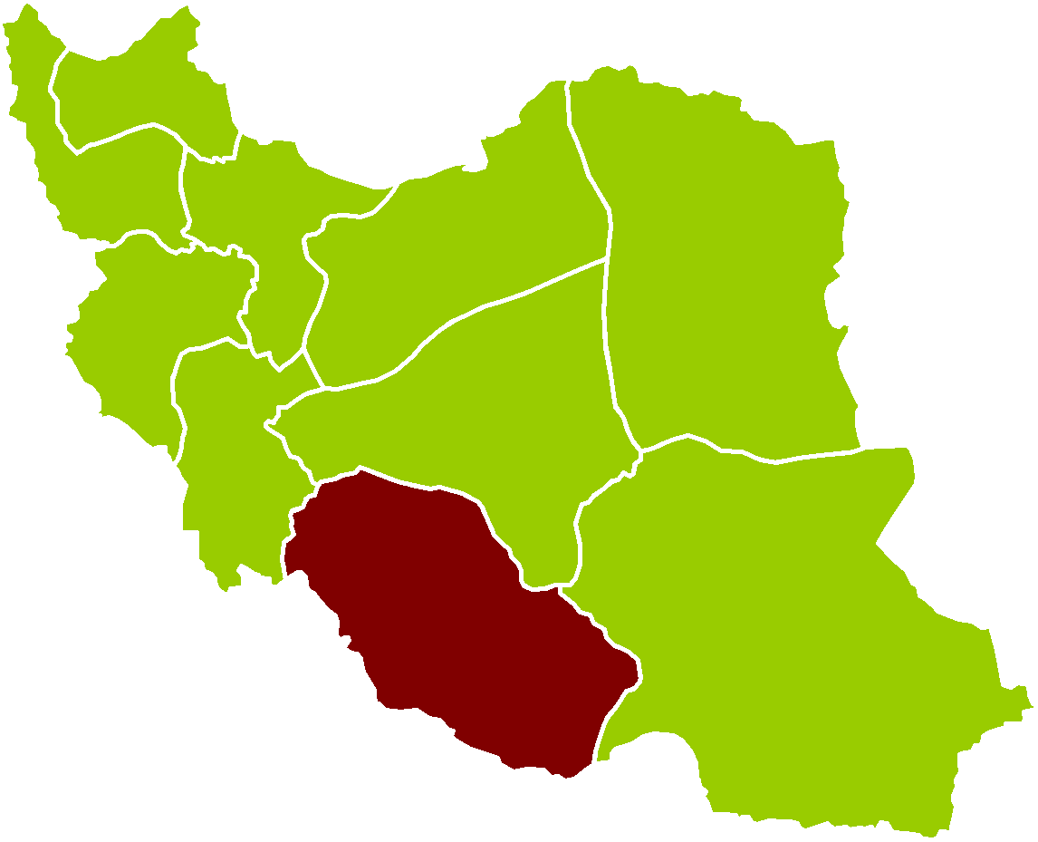 Seventh province of Iran